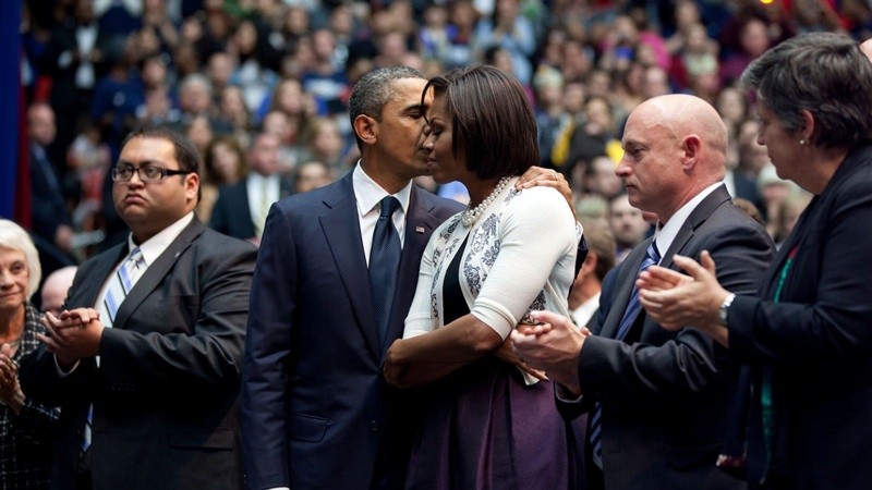 Intern Daniel Hernández Jr., President Barack Obama, First Lady Michelle Obama, astronaut Mark E. Kelly and Homeland Security secretary Janet Napolitano at a memorial for the victims of the 2011 Tucson shooting.